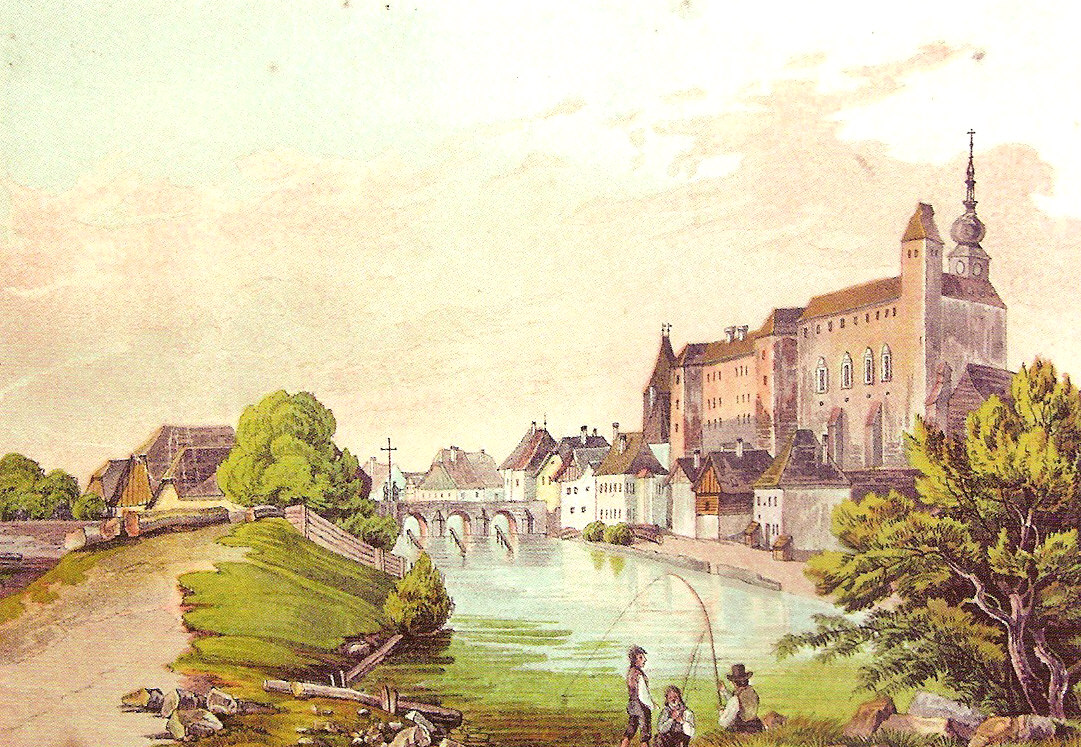 Písek in the first half of the 19th century